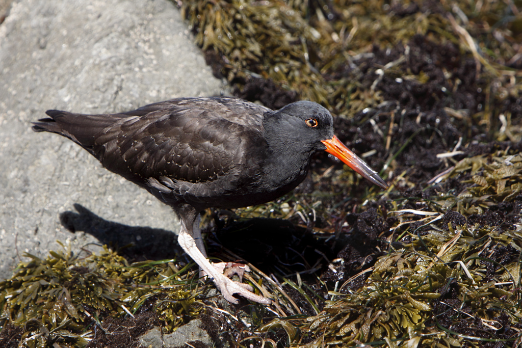 Unlike an adult mature Black Oystercatcher (Haematopus bachmani), the Juvenile has black on the beak which will turn red as it matures, and the eyes are a dull brown color which will turn a bright yellow when it matures.